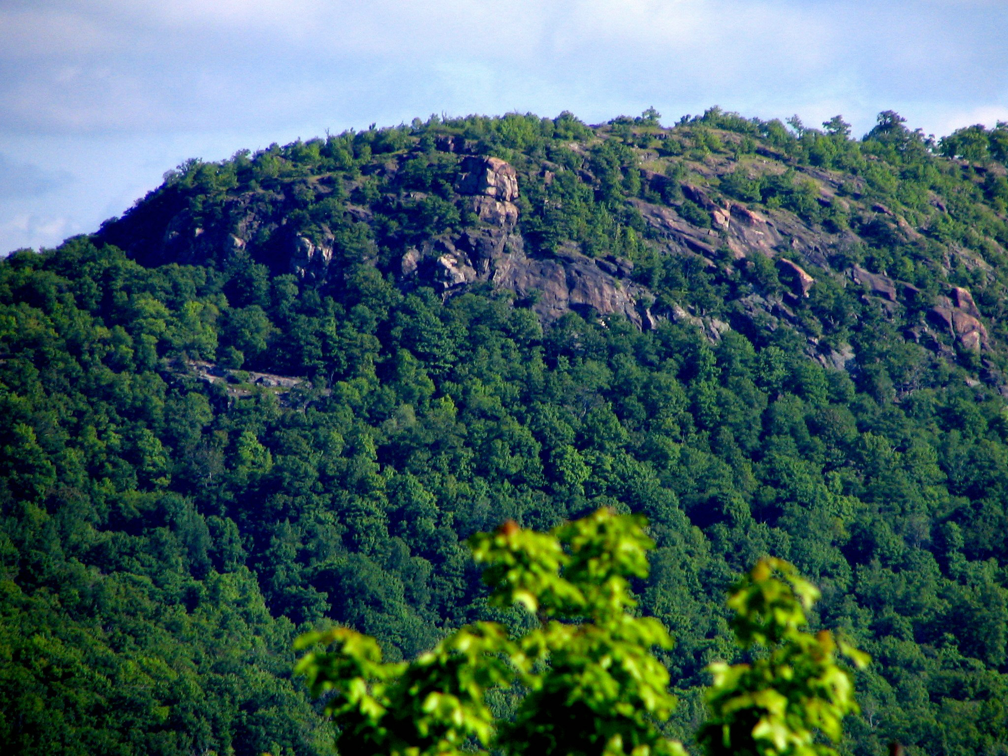 Ramapo Torne in Ramapo, New York, Harriman State Park Taken by User:Mwanner, 27 May, 2005